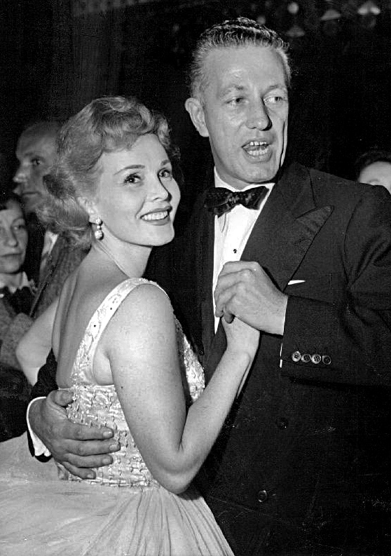 Candid press photo of Zsa Zsa Gabor and director Nicholas Ray.